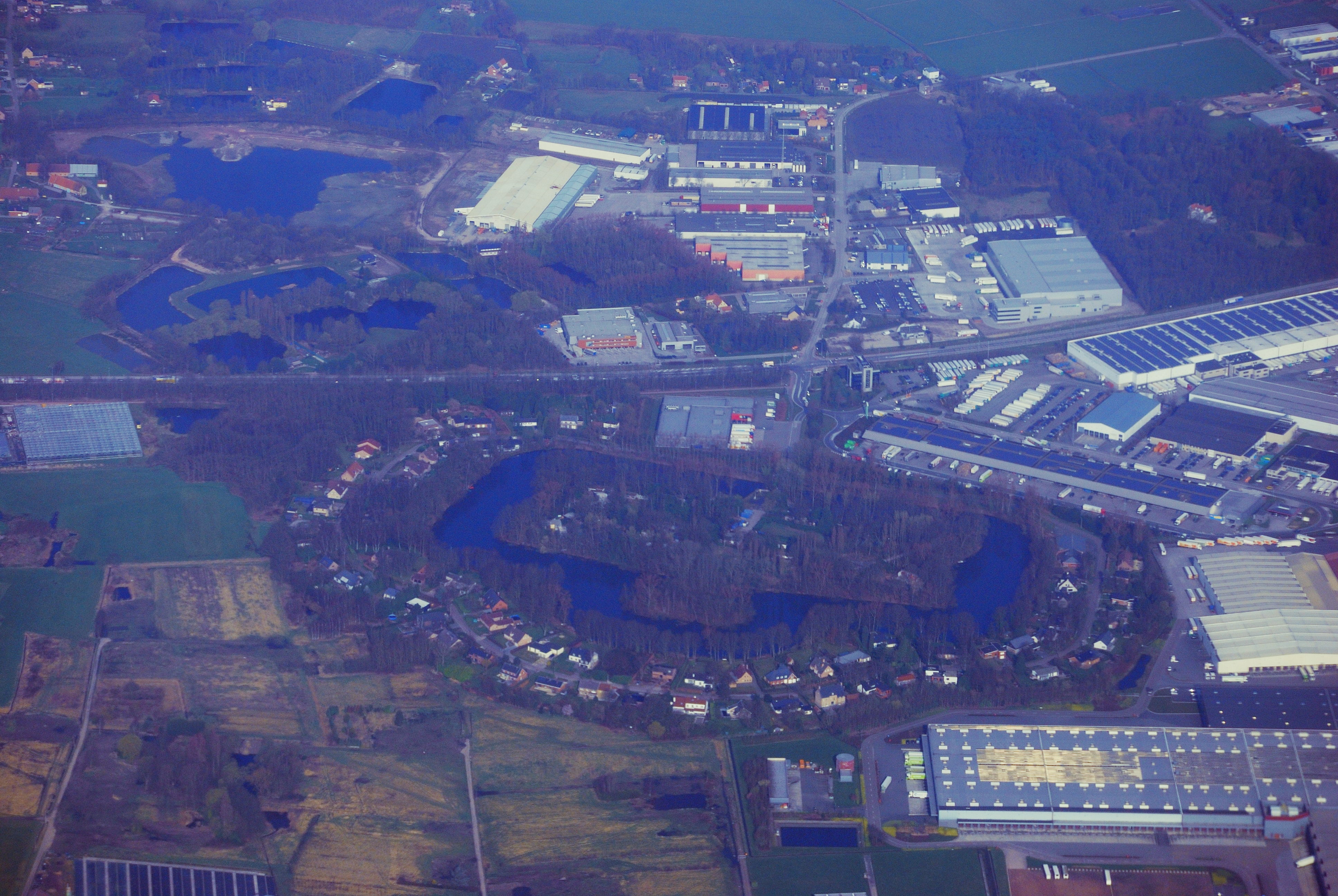 Aerial view of the old military fortification "Fort 12" at Sint-Katelijne-Waver, Belgium. Industrial buildings to the right belong to the fruit auction. Nikon D60 f=92mm f/7.1 at 1/800s ISO 200. Colour corrected using GIMP 2.6.11.